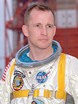 Ed White, Apollo 1 crew astronaut